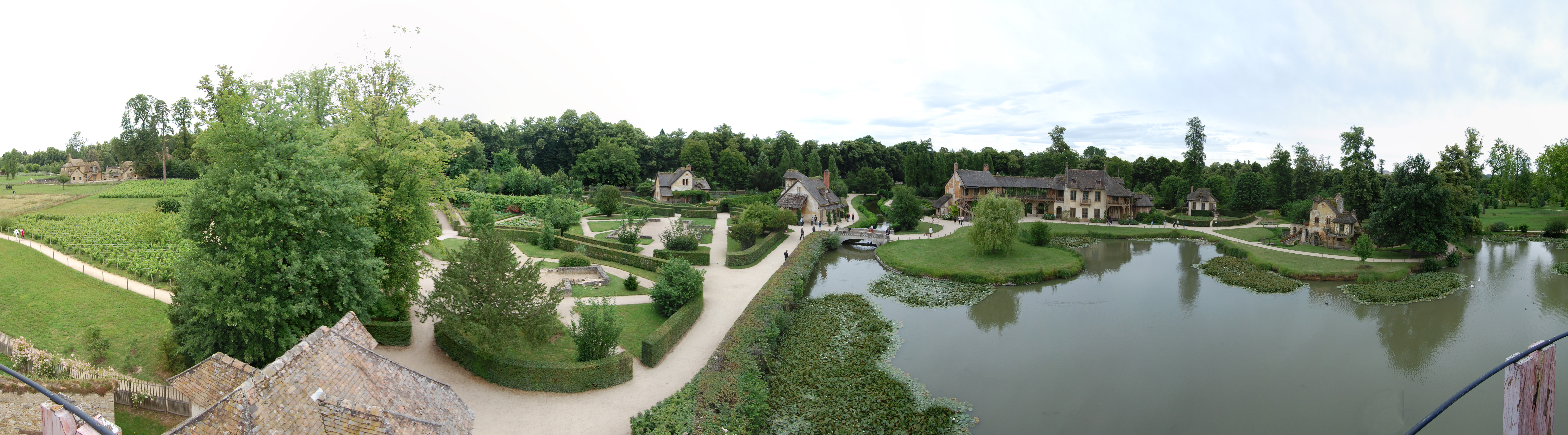 The Queen's hamlet, seen from the Tour de Marlborough